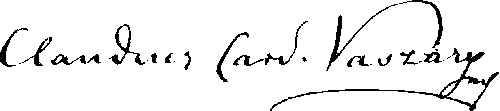 signature of Ferenc Vaszary Kolos, archbishop of Esztergom.